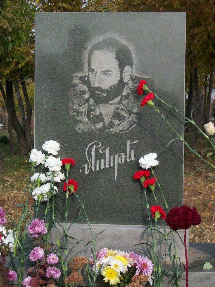 Monte Melkonian's grave in Yerablurcemetery, Yerevan. 7/1.2